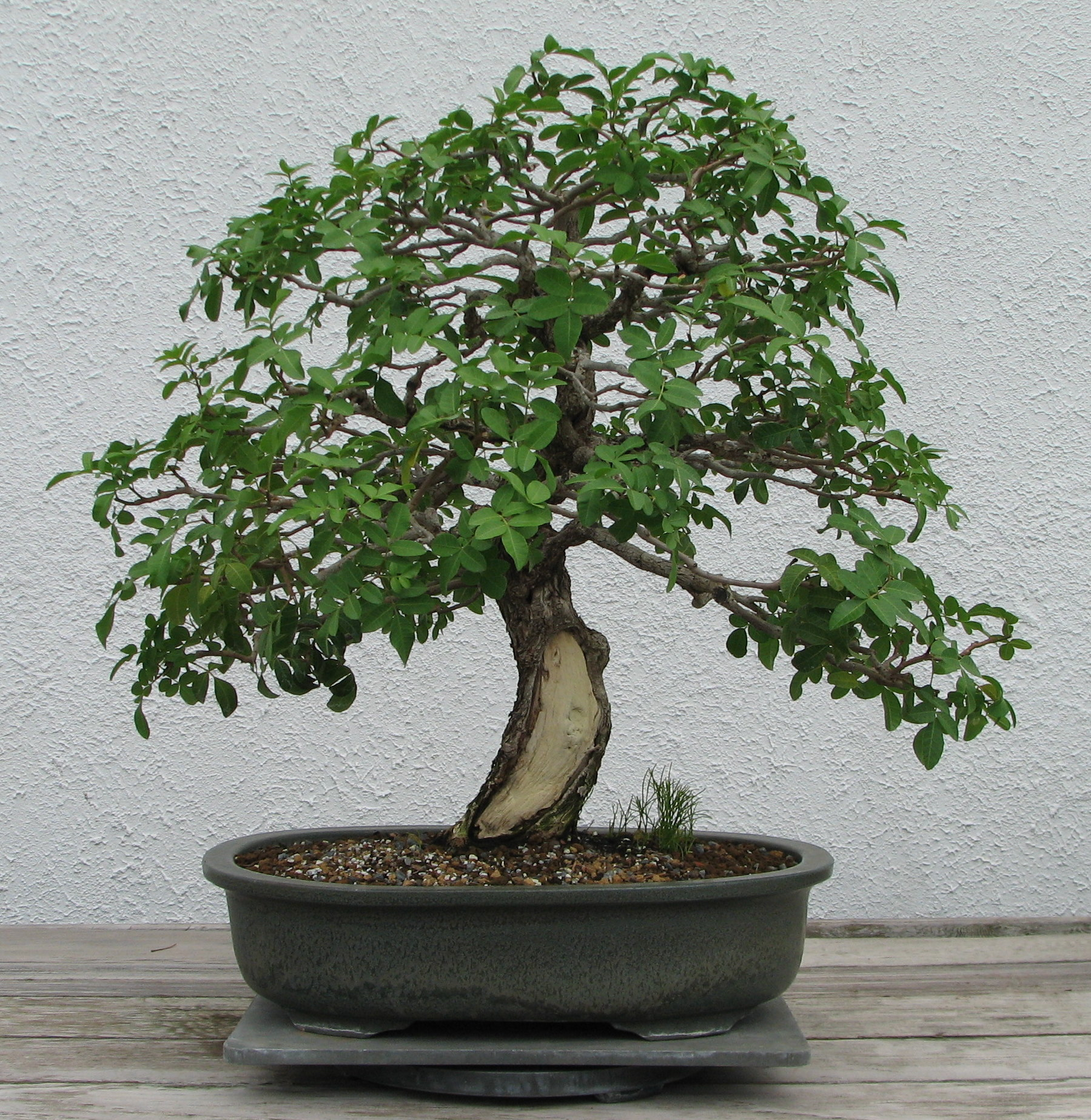 A Christmas Berry (Schinus terebinthifolius) bonsai on display at the National Bonsai & Penjing Museum at the United States National Arboretum. According to the tree's display placard, it has been in training since 1973. It was donated by Edward Nakanishi. The is the "back" of the tree.